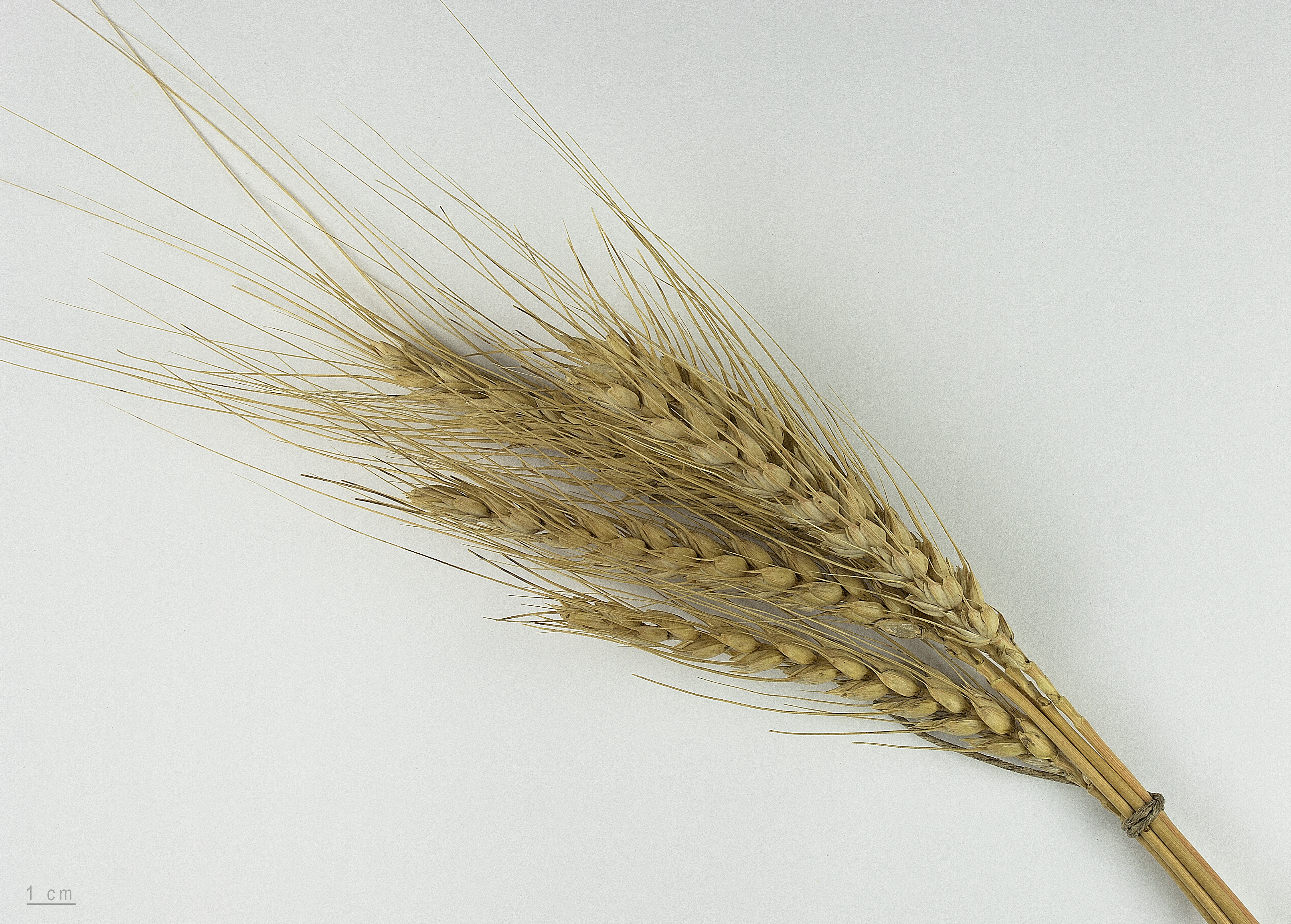 Triticum aestivum subsp. aestivum, seeds